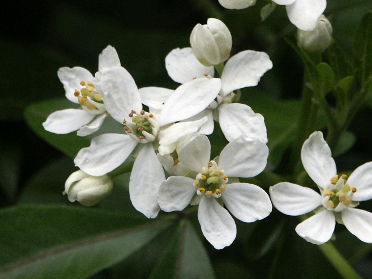 Choisya ternata. Royal Botanic Gardens, Kew, UK